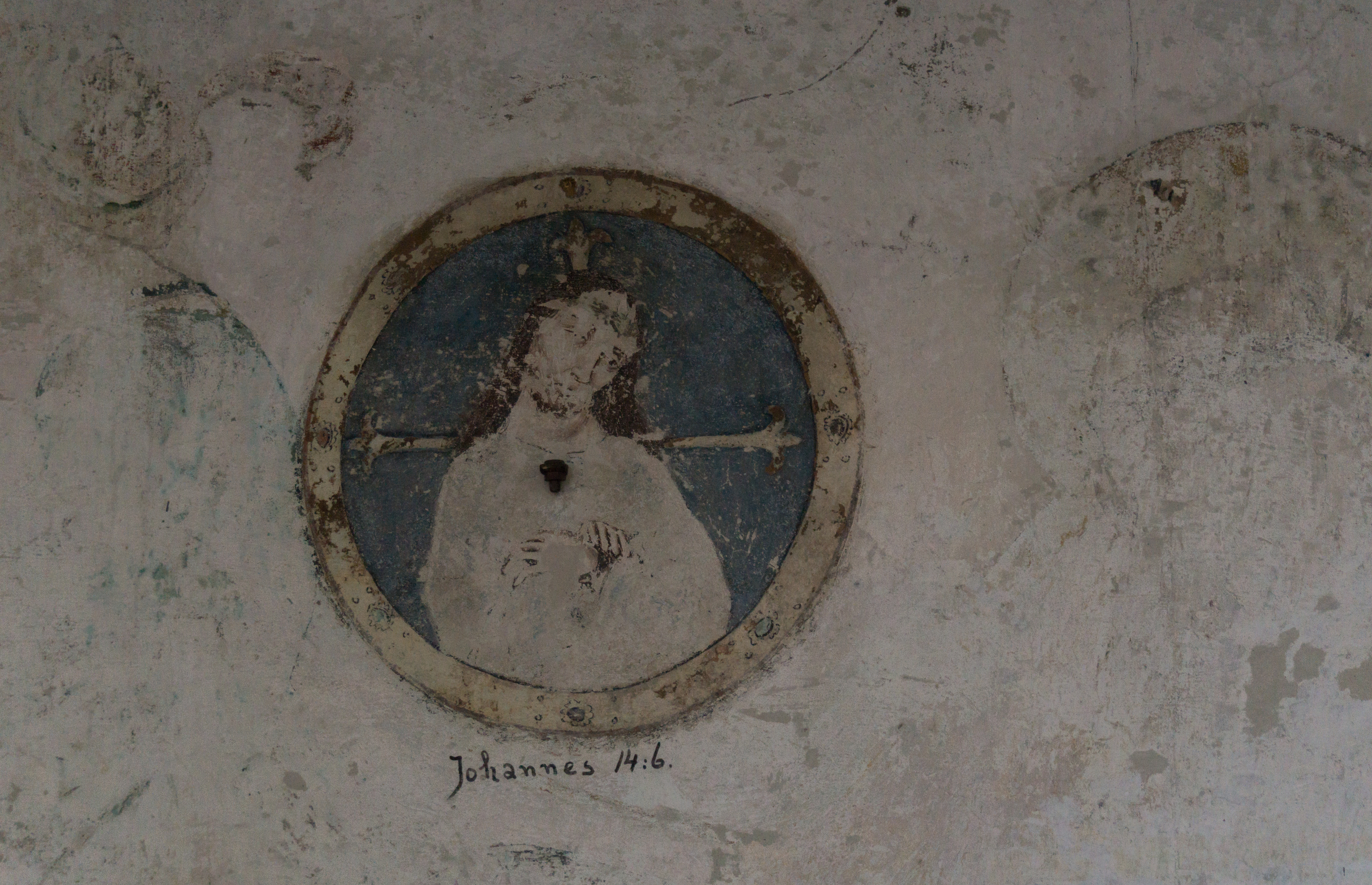 Frescoes of Schlosskapelle BlutenburgThis is a photograph of an architectural monument. ‑1‑62‑000‑78